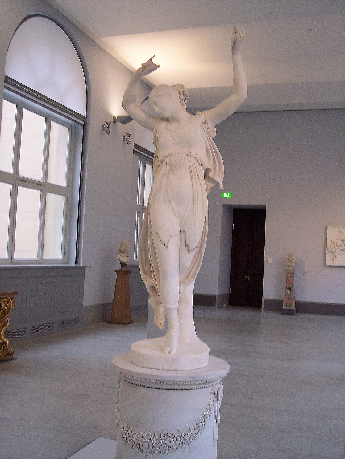 Antonio Canova: Dancer